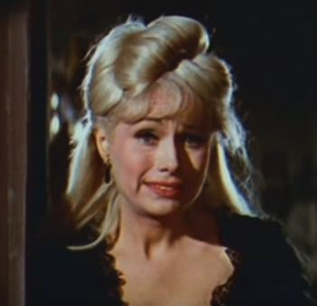 Joyce Jameson in The Comedy of Terrors - trailer (cropped screenshot)